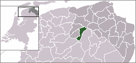 Locator map of Dutch municipalities in Groningen (LocatieLeek.png)